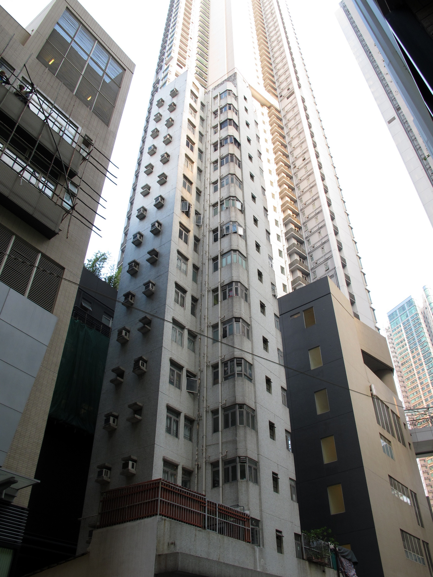 Hoi Ming Court